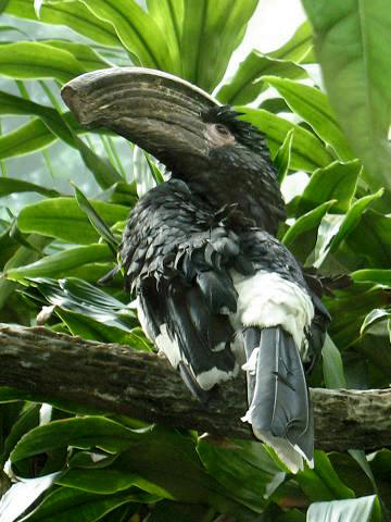 Description: Trumpeter Hornbill - Source: own work - Location: Bronx Zoo, New York - Author: self, User:Stavenn